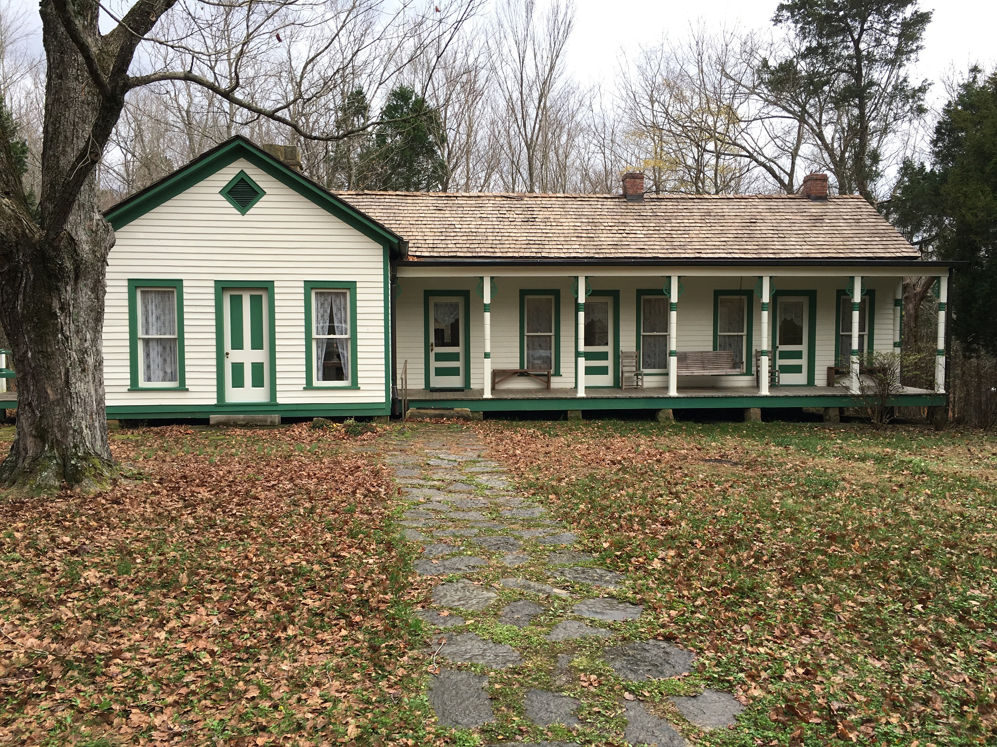 Bill Monroe Farm Located on Jerusalem Ridge, the farmhouse was restored from near ruin in 2001 by a collaborative effort between donors, the Family and government agencies.